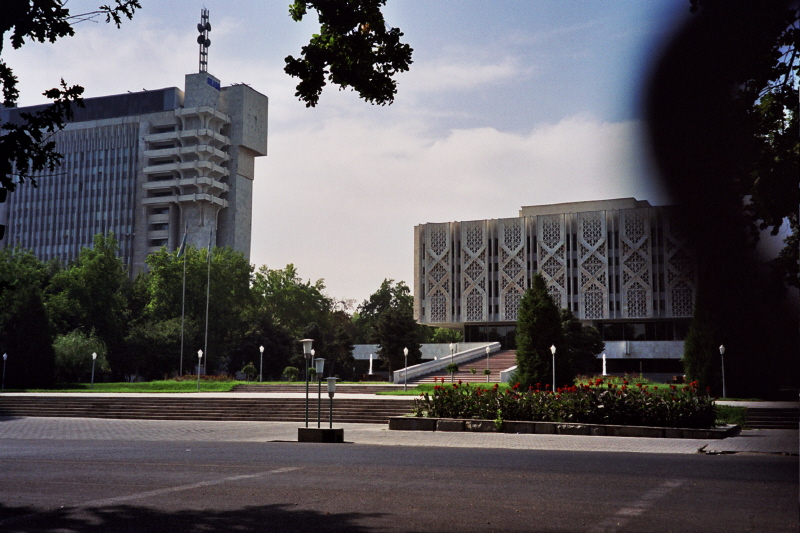 looking across Sharof Rashidov Street, Tashkent.